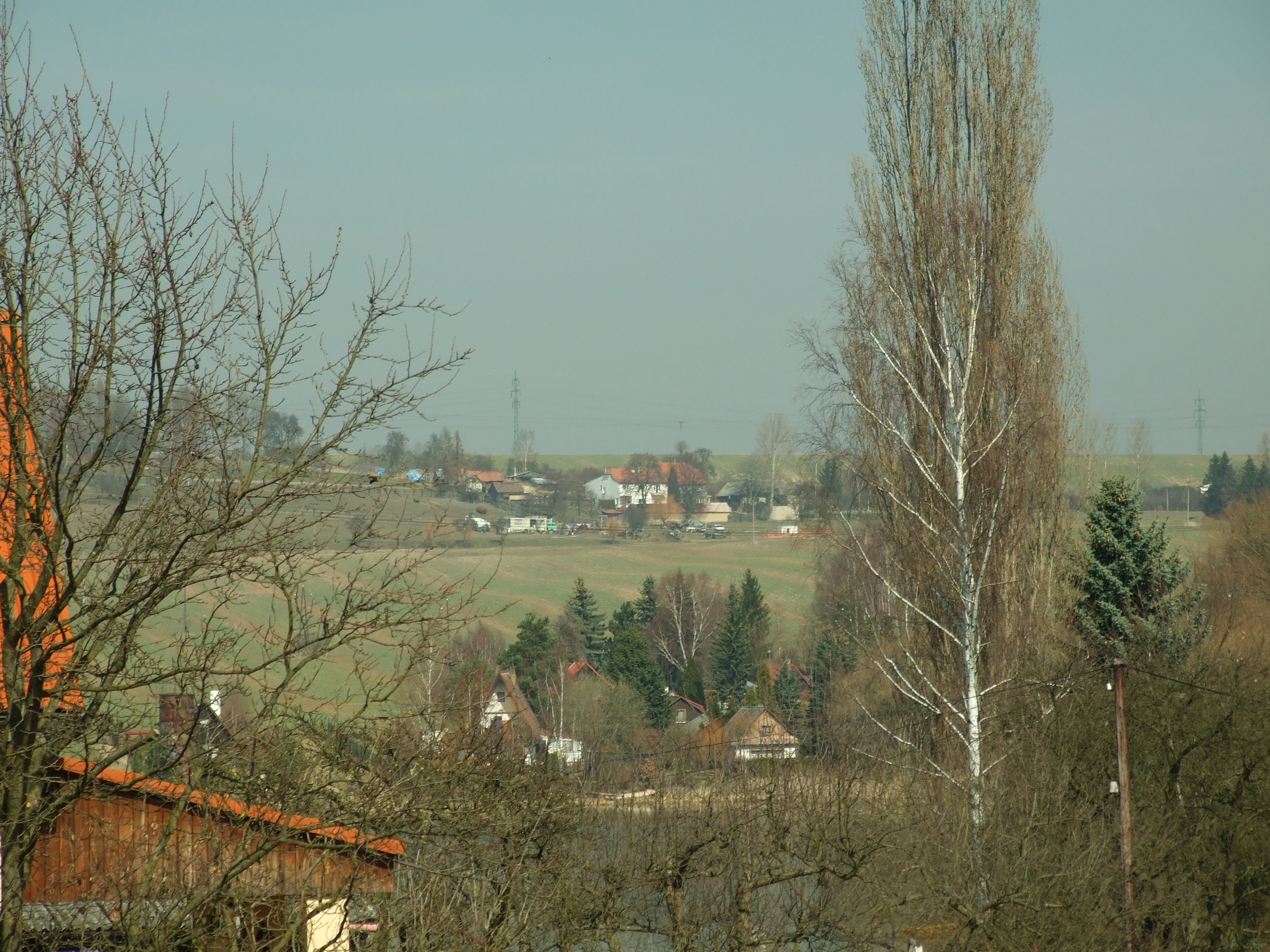 Part of the Třtice village seen from Bucek recreational area, Rakovník District. Central Bohemian Region, CZ